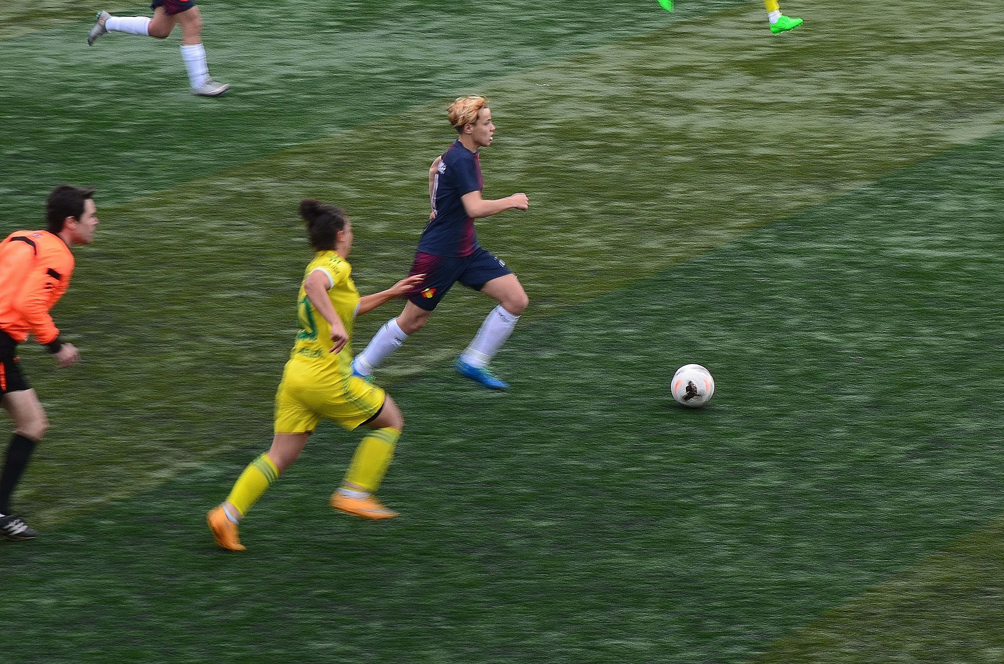 Gülbin Hız playing for Trabzon İdmanocağı in the 2015-16 season